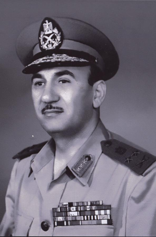 General Mohamed Ahmed Sadek, former Commander in Chief of the Egyptian Armed Forces.